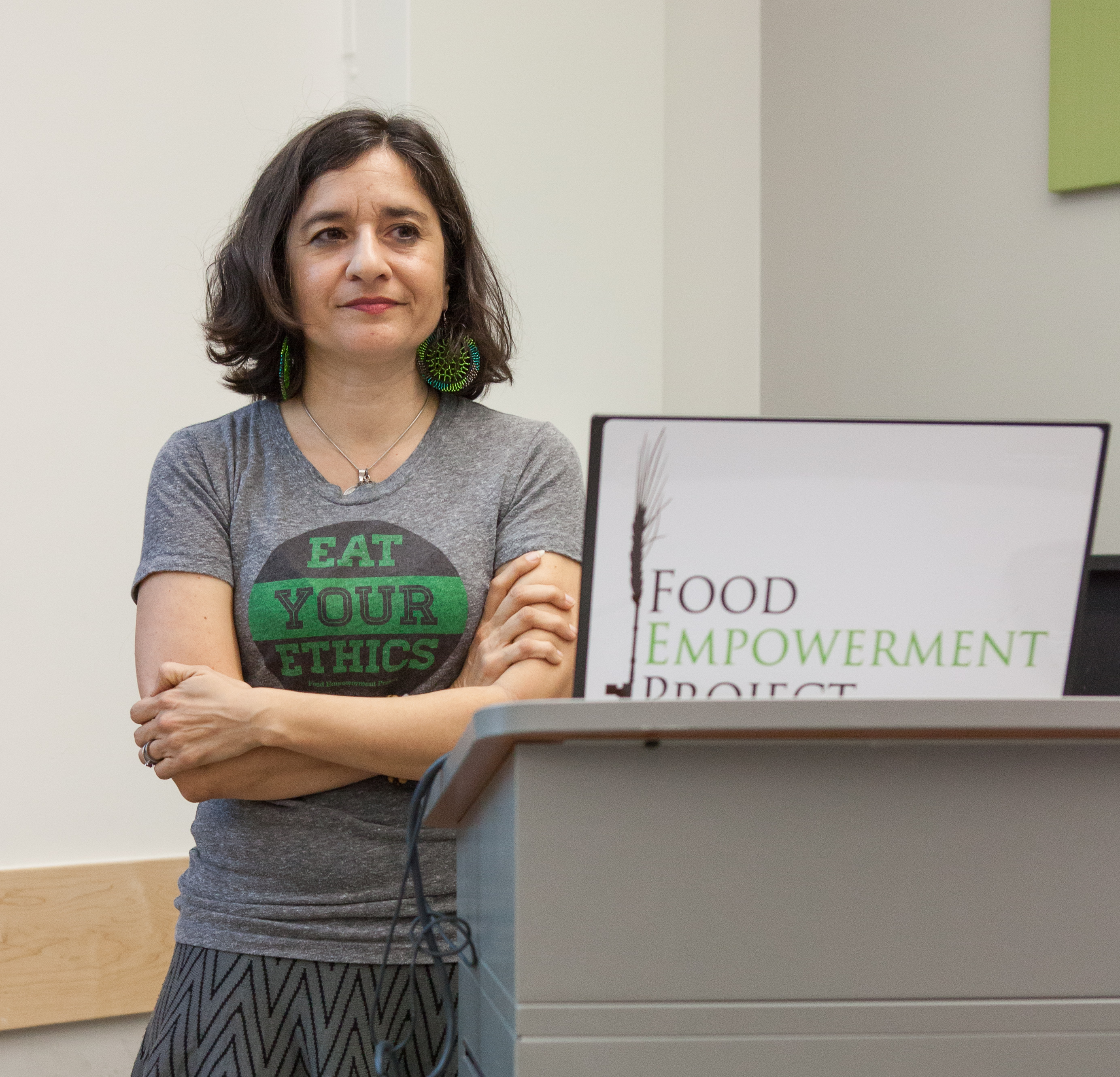 lauren Ornelas of the Food Empowerment Project gives a presentation at the University of California, Berkeley.